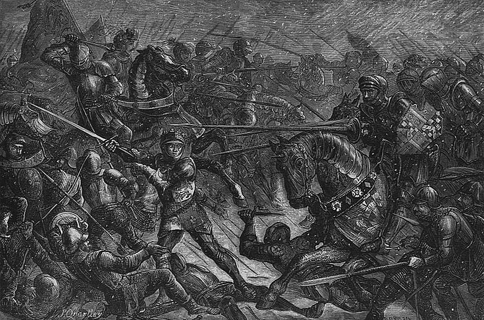 Engraving of Edward IV extolls his troops to fight their Lancastrian foes at the Battle of Towton (29 March 1461). This was first published in: Grant, James (1880) [1878] "Chapter XVI" in British Battles on Land and Sea, Volume 1, London, Paris and New York: Cassell Petter and Galpin, pp. p. 91 Retrieved on 25 November 2010.